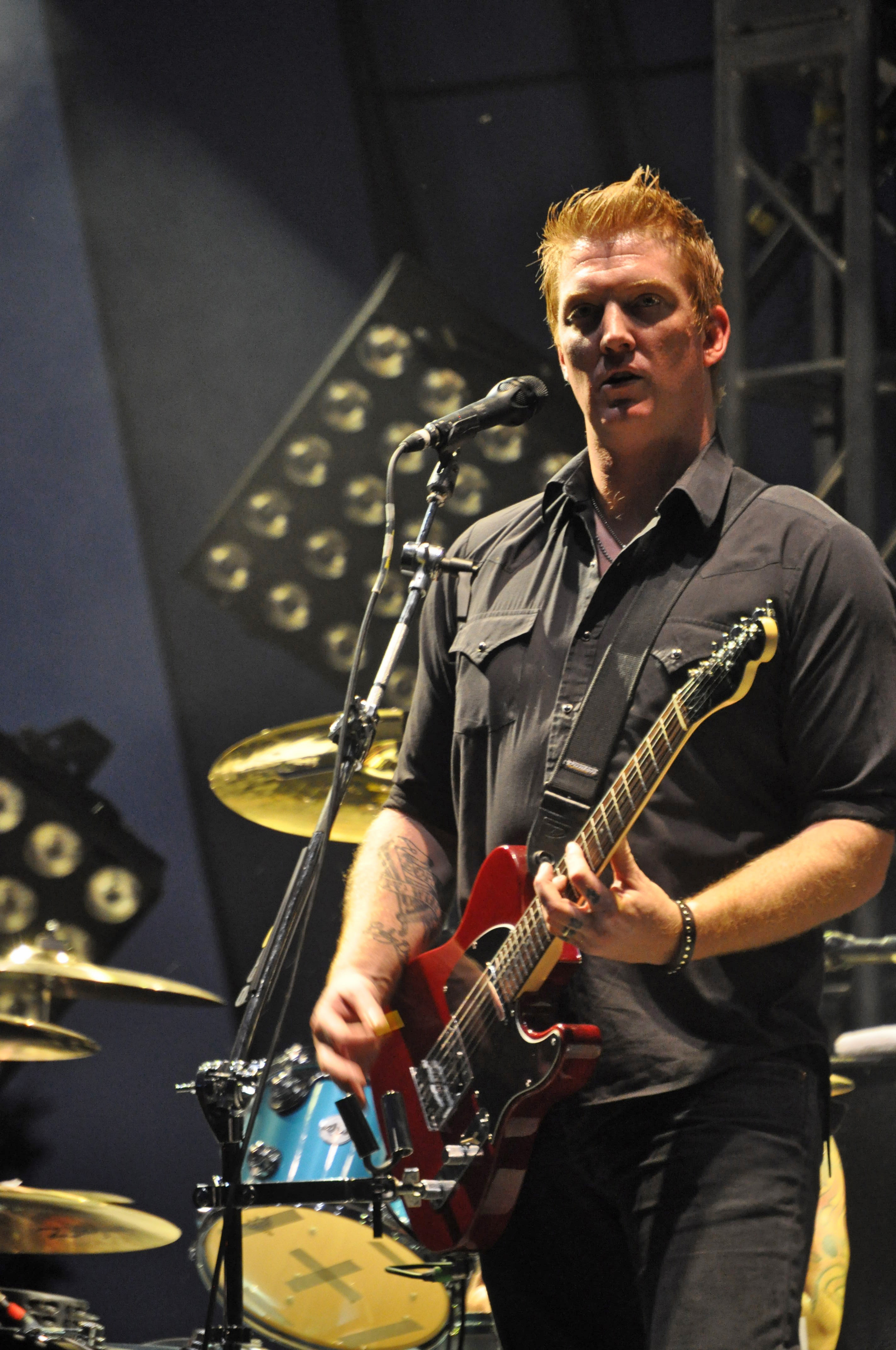 Josh Homme